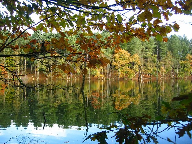 Dead Lake, Delamere. This secluded mere is tucked away in a corner of Delamere Forest just off the B5152. The photo was taken at 09:30 on 24th October, 2004.